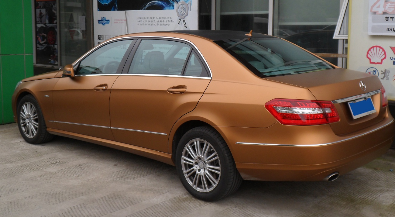 Mercedes-Benz E-Class V212 photographed in Shanghai, China.